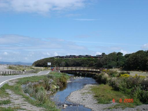 Cycle route 5. The North Wales coastal cycle path at Llanddulas.